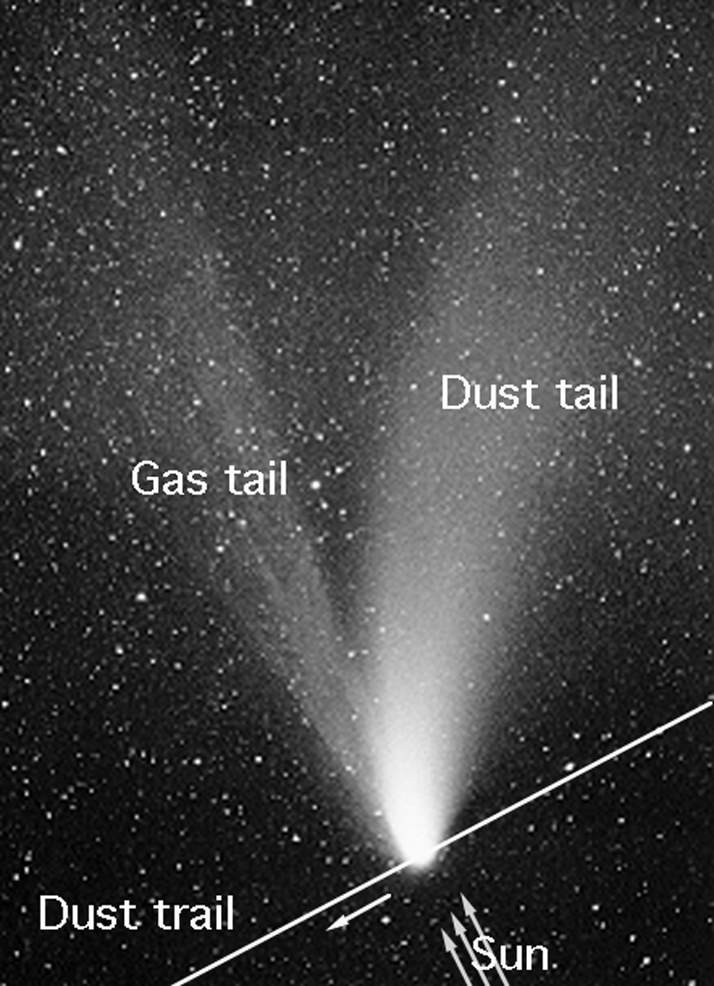 This is an artist's concept of a comet dust trail and dust tail. The trail can only be seen in the light of radiated heat. The dust trail is made of particles that are the size of sand grains and pebbles. They are large enough that they are not affected much by the Sun's light and solar wind. The dust tail, on the other hand, is made of grains the size of cigarette-smoke particles. These grains are blown out of the dust coma near the comet nucleus by the Sun's light.